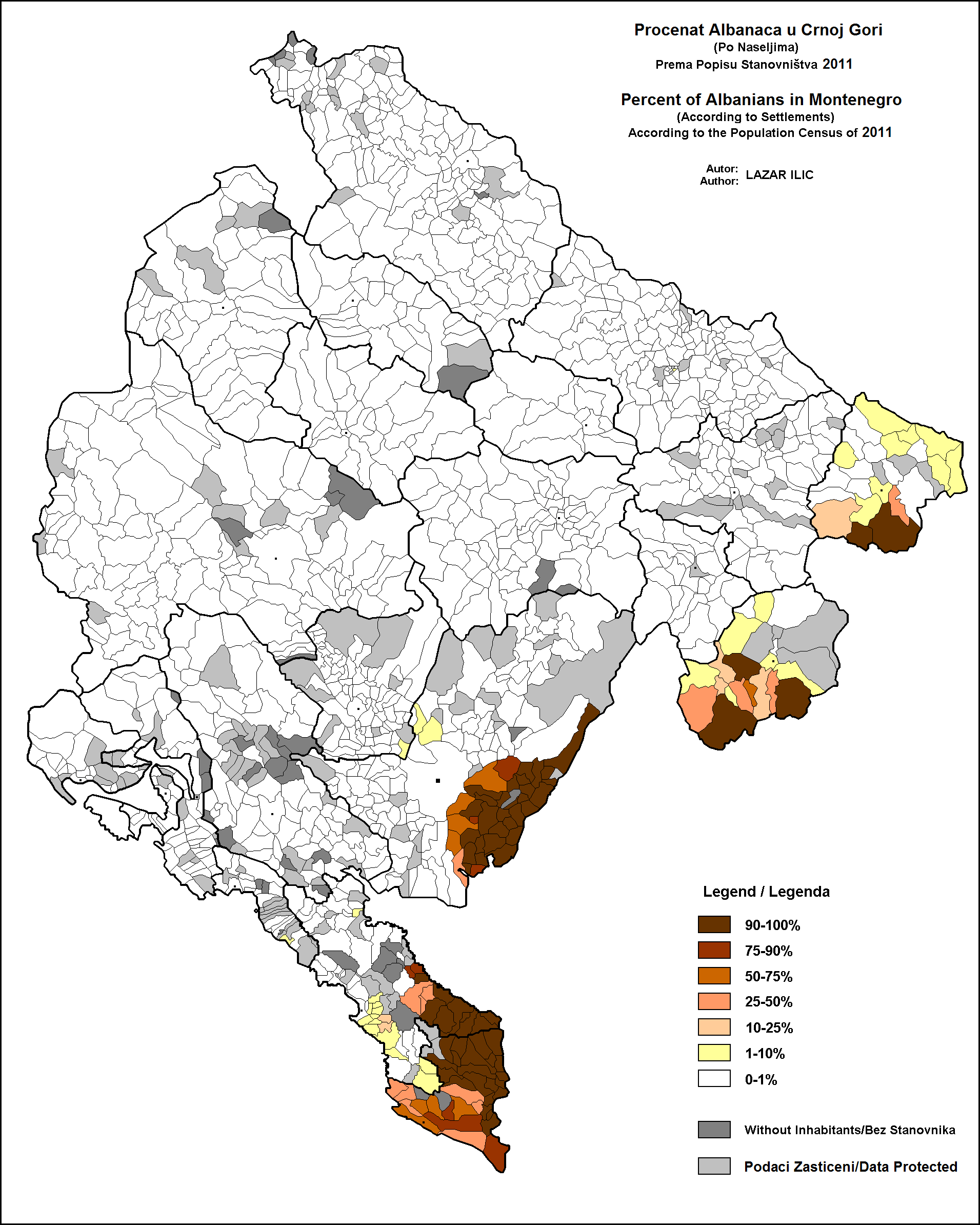 This map shows the percent of Albanians in Montenegro according to the 2011 population census. Data is according to settlements.